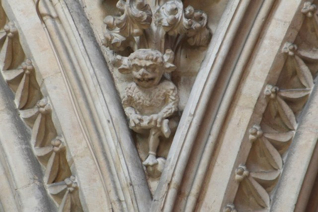 The Lincoln Imp Hidden high up on the north side of the Angel Choir of St.Mary's cathedral, the imp is a popular Lincoln motif. Shortly after the Angel Choir was constructed, the devil sent two imps to create havoc, one entered the cathedral and caused mischief until turned to stone .... here it has remained for hundreds of years.